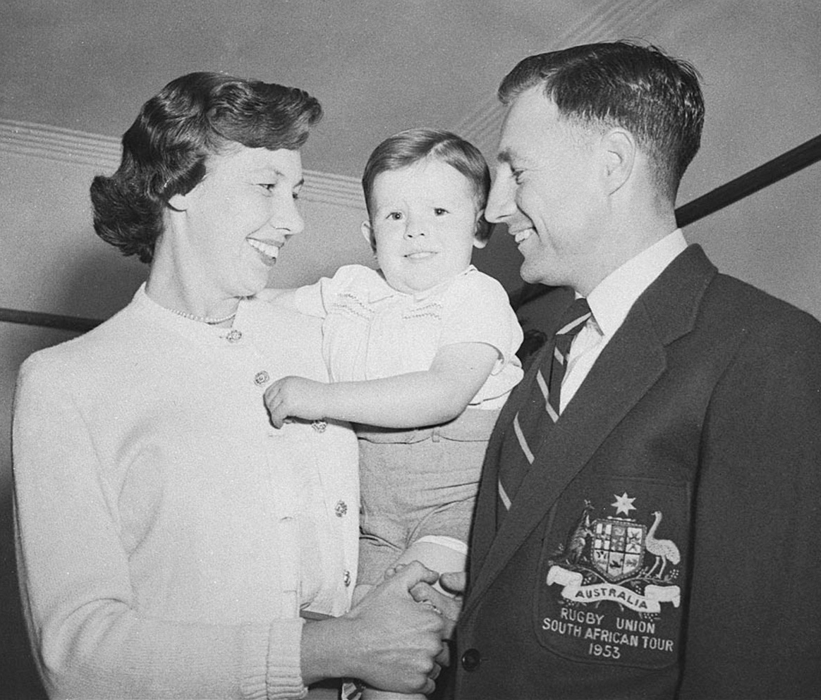 Footballer Cyril Burke returns from Wallabies 1953 South African tour